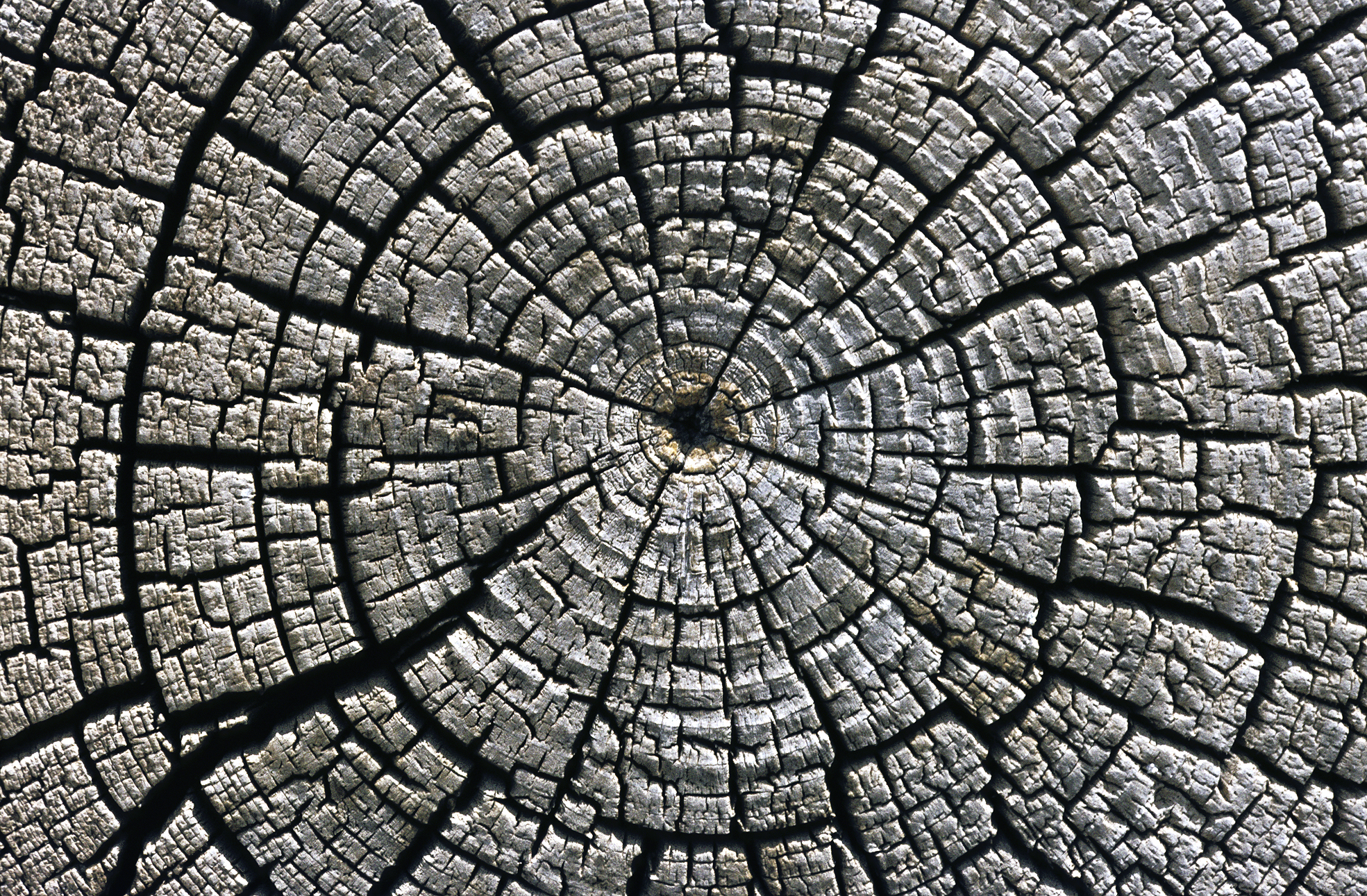 Weathered growth rings in a horizontal cross section cut through an tree felled around AD 1111 used for the western building complex at Aztec Ruins National Monument, San Juan County, New Mexico, USA. There is the cross section cut of the tree located in the outer wall of the building.